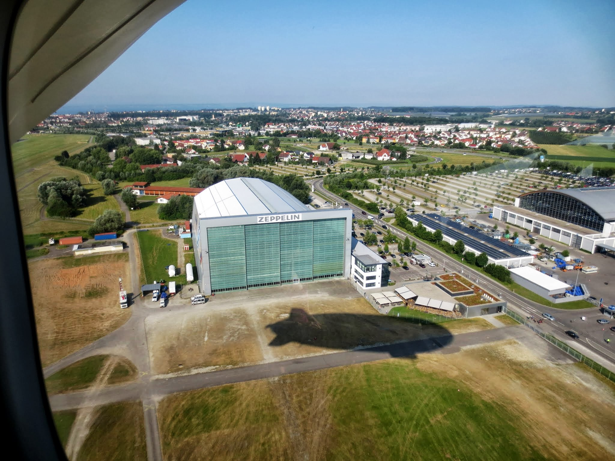 Zeppelin NT shadow and its hangar 2